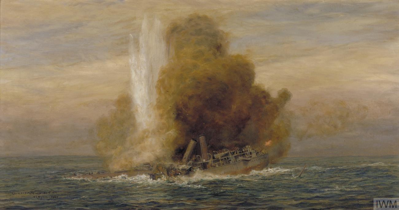 Loss of HMS Pathfinder, September 5th 1914 image: A painting of the 'Pathfinder' exploding and sinking. The bow of the vessel has already sunk beneath the surface, and the first funnel seems about to break off into the water. There is an enormous cloud of dense smoke all around the ship, with a high jet of water rising into the air on the left.